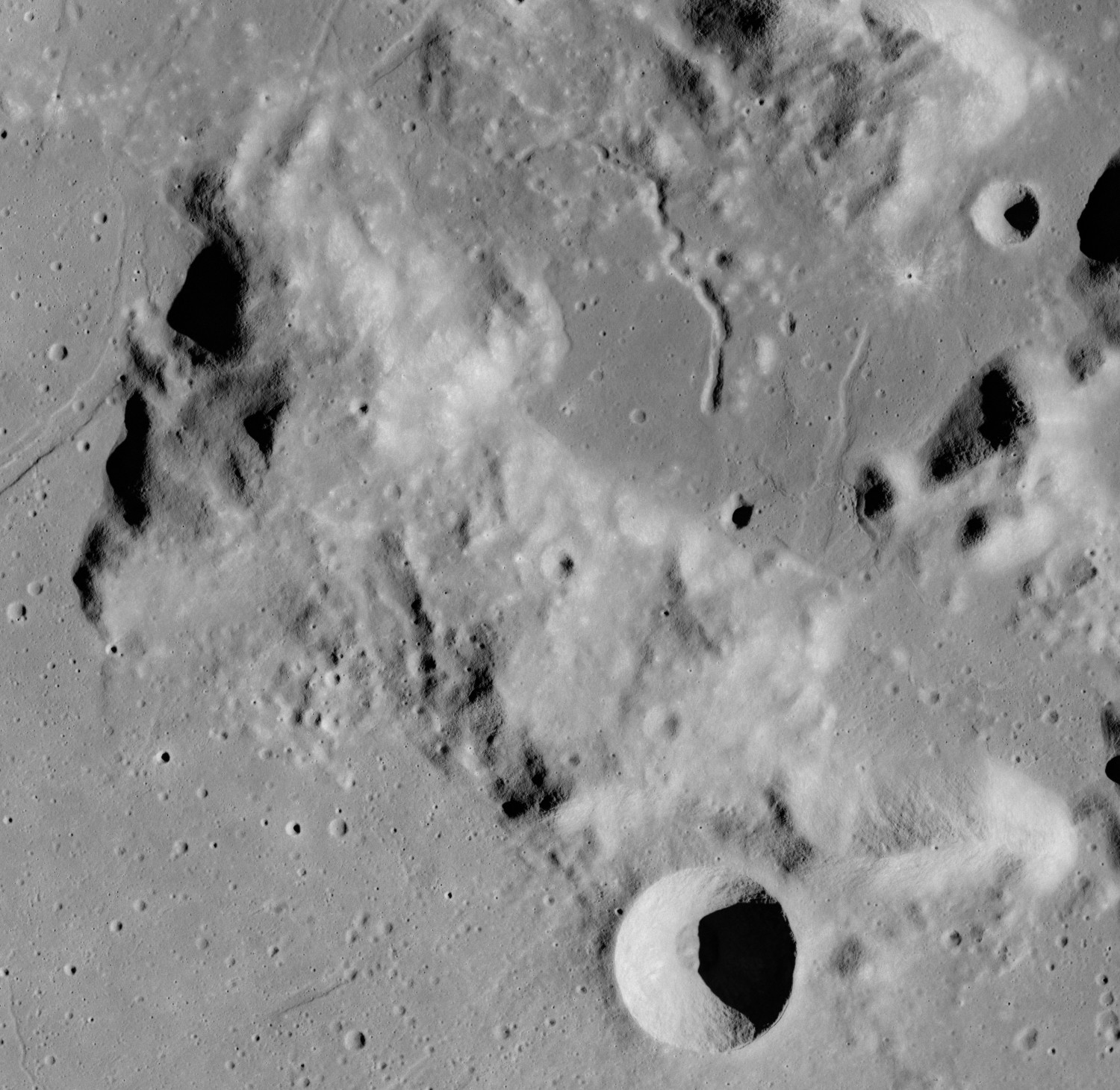 Mons Argaeus, on the moon. The crater Fabbroni is in lower right.